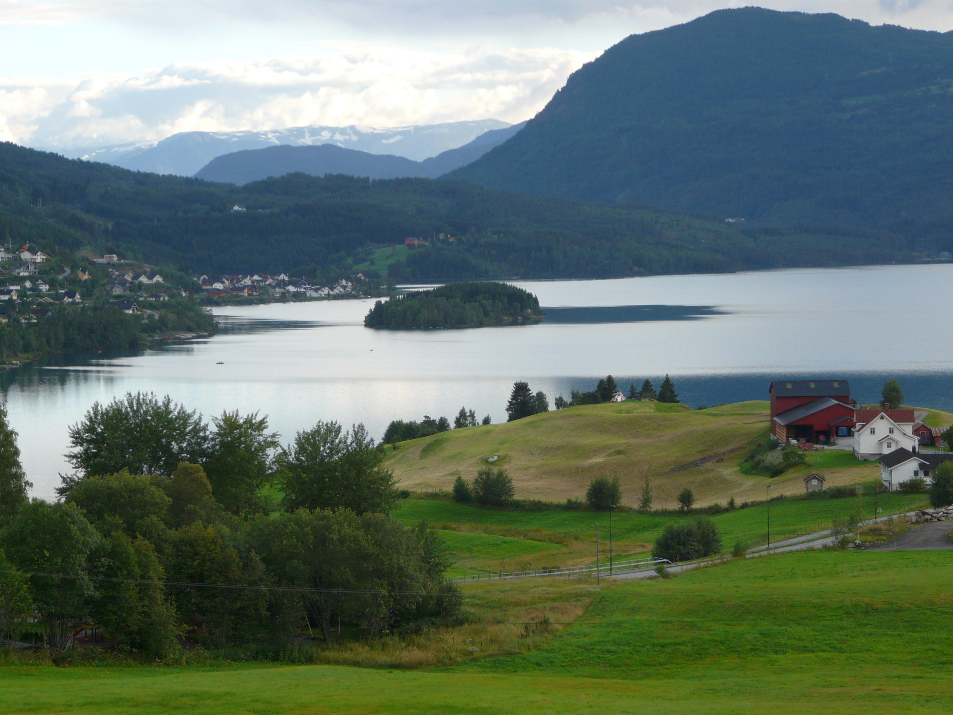 Hafslo